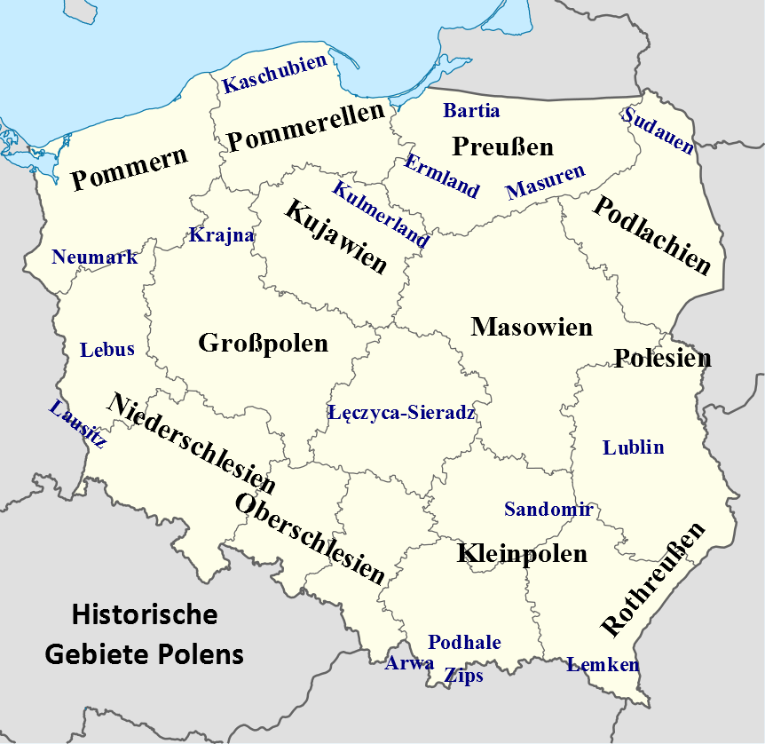 Poland historical regions. In black regions completely in cluded in modern Poland; in blue regions partially included in modern Poland.